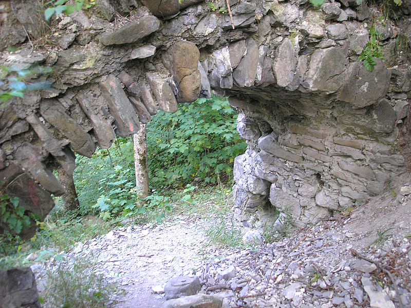 Fluhenstein castle (Berghofen, Stadt Sonthofen, Landkreis Oberallgäu, Bavaria, Germany). The gate of the central castle. seen from inside